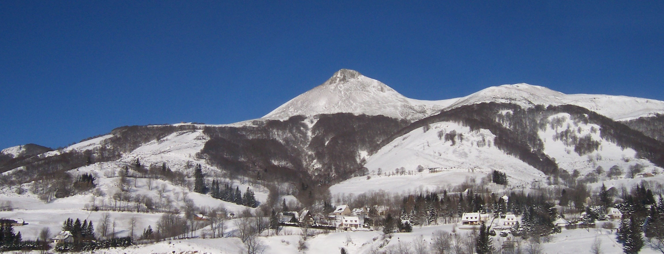 The Puy Griou, one of the summits of the Monts du Cantal (Massif Central, France) seen from the train between Aurillac and Clermont-Ferrand